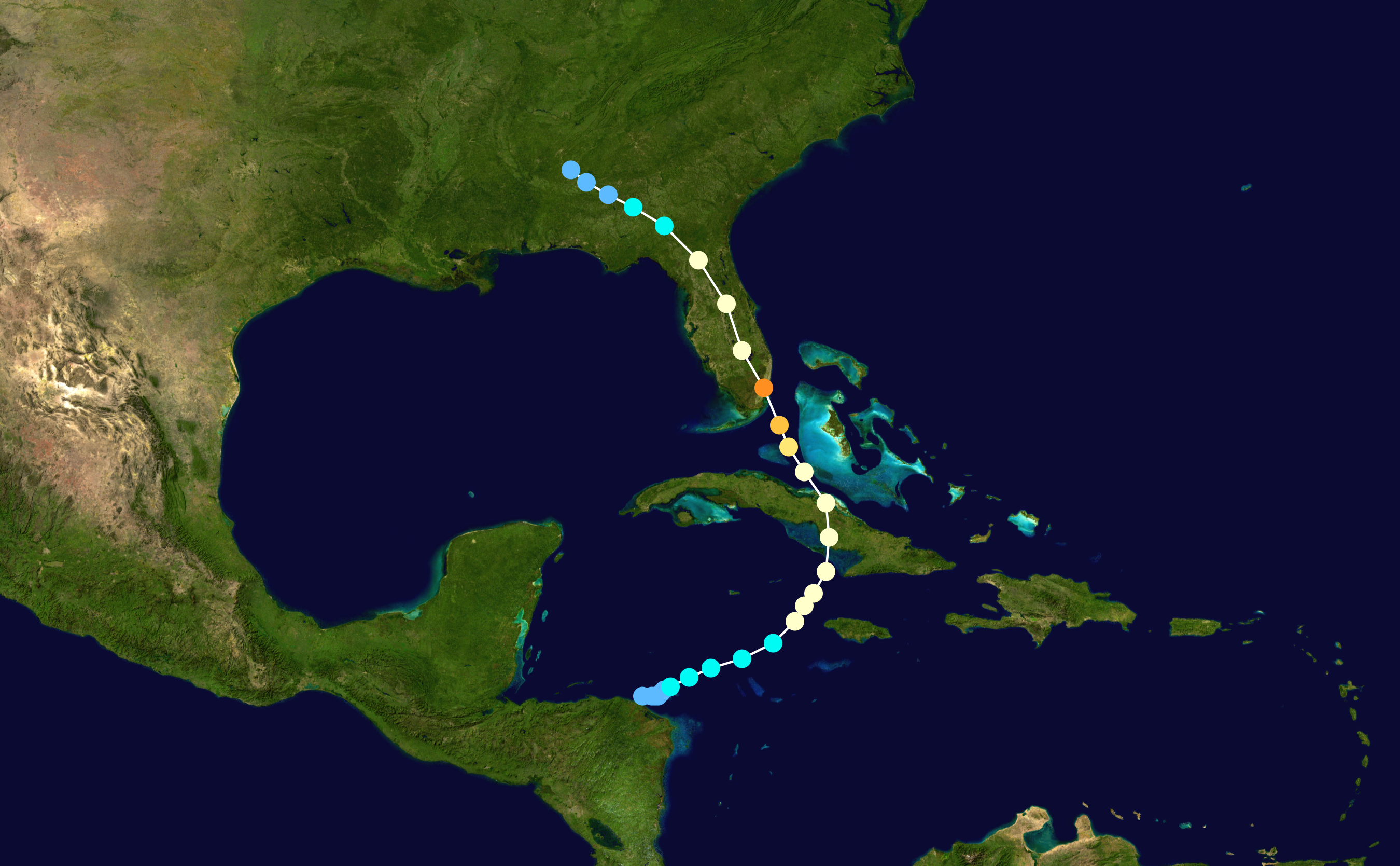 Track map of Hurricane King of the 1950 Atlantic hurricane season. The points show the location of the storm at 6-hour intervals. The colour represents the storm's maximum sustained wind speeds as classified in the Saffir–Simpson scale (see below), and the shape of the data points represent the nature of the storm, according to the legend below. Saffir–Simpson scale Tropical depression≤38 mph≤62 km/h Category 3111–129 mph178–208 km/h Tropical storm39–73 mph63–118 km/h Category 4130–156 mph209–251 km/h Category 174–95 mph119–153 km/h Category 5≥157 mph≥252 km/h Category 296–110 mph154–177 km/h Unknown Storm type Tropical cyclone Subtropical cyclone Extratropical cyclone / Remnant low / Tropical disturbance